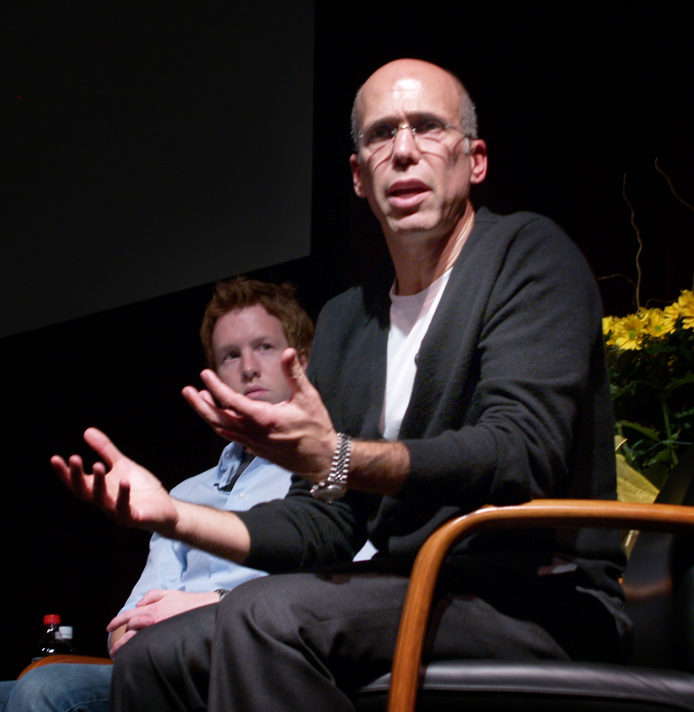 Jeffrey Katzenberg lectured to students in Morris Daily hall during his visit to campus on Thursday. Katzenberg's was accompanied by Tim Heitz, a 2006 graduate now employed by Dreamworks.